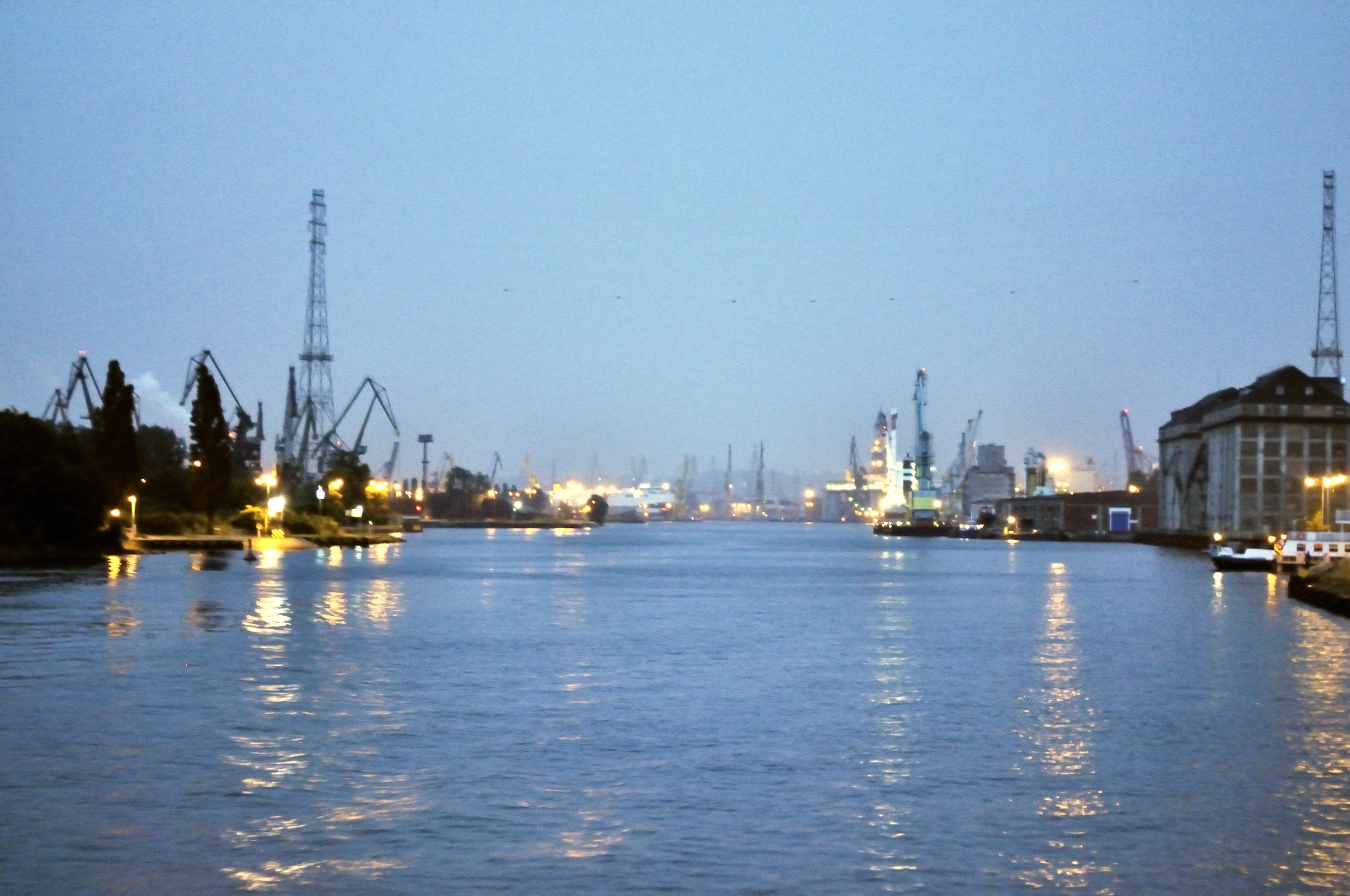 Picture taken in Gdańsk after Wikimania 2010 conference.